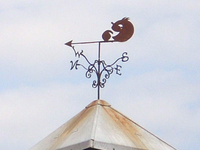 Happy Eater weathervane. Perched on top of 1278270 it seems a rather ill-considered icon for a restaurant chain. Perhaps it's just that it's from a more innocent age.